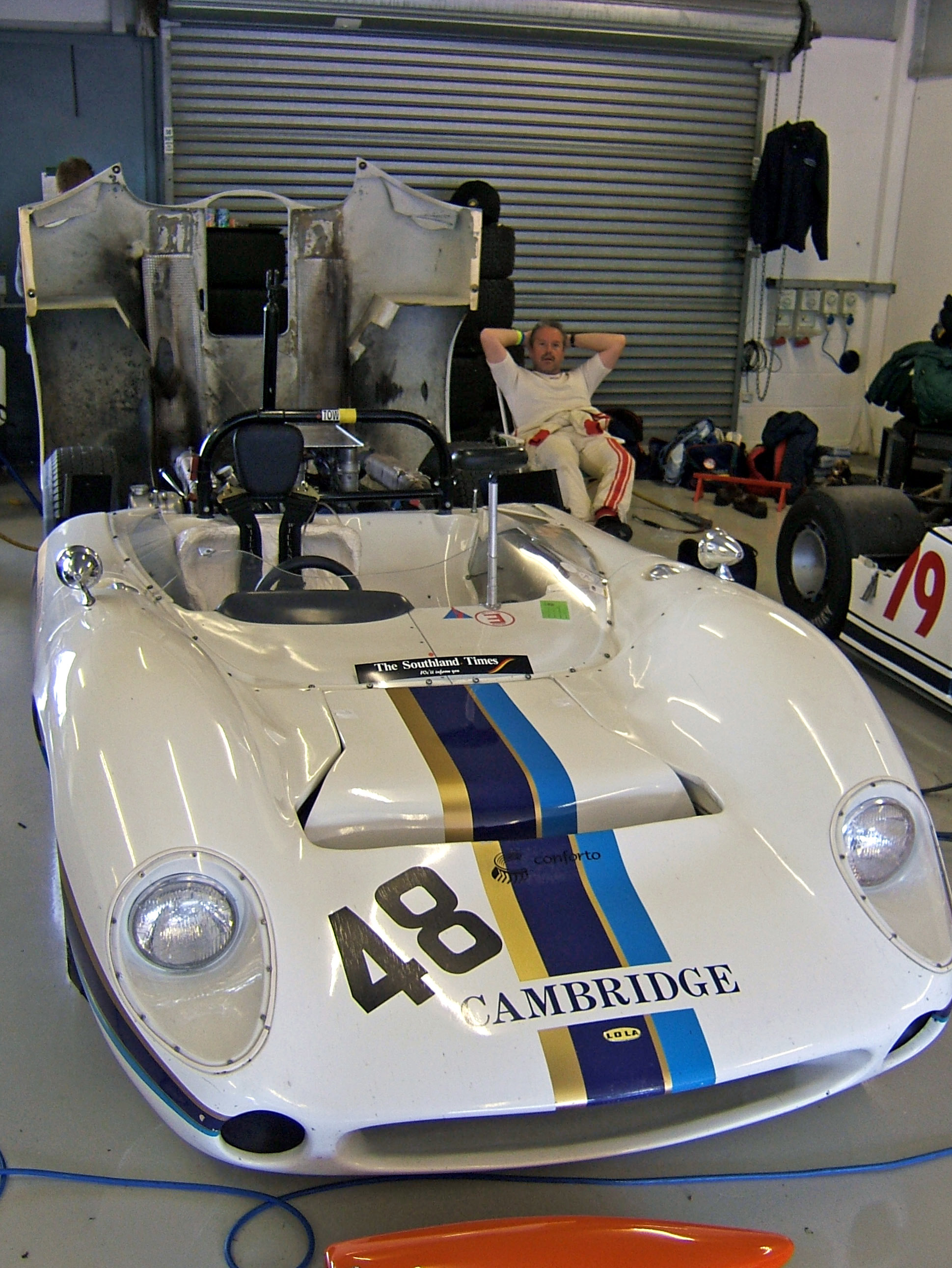 A Lola T70 Mk2 Spyder relaxes in the pit garages at Silverstone with its driver, July 2007